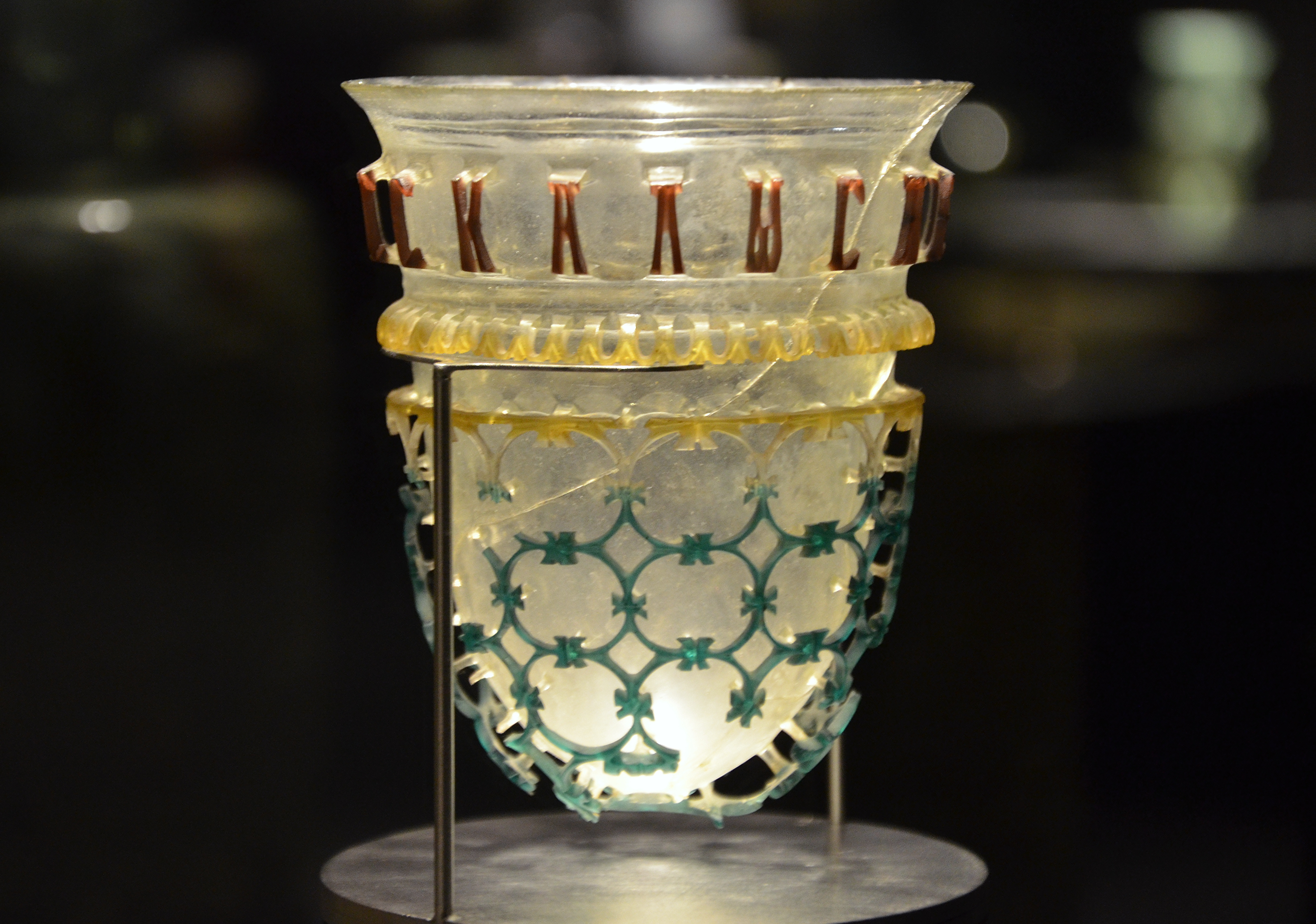 Exhibition: Fragile Luxury - Cologne a glass-making centre in Antiquity, Romano-Germanic Museum, Cologne